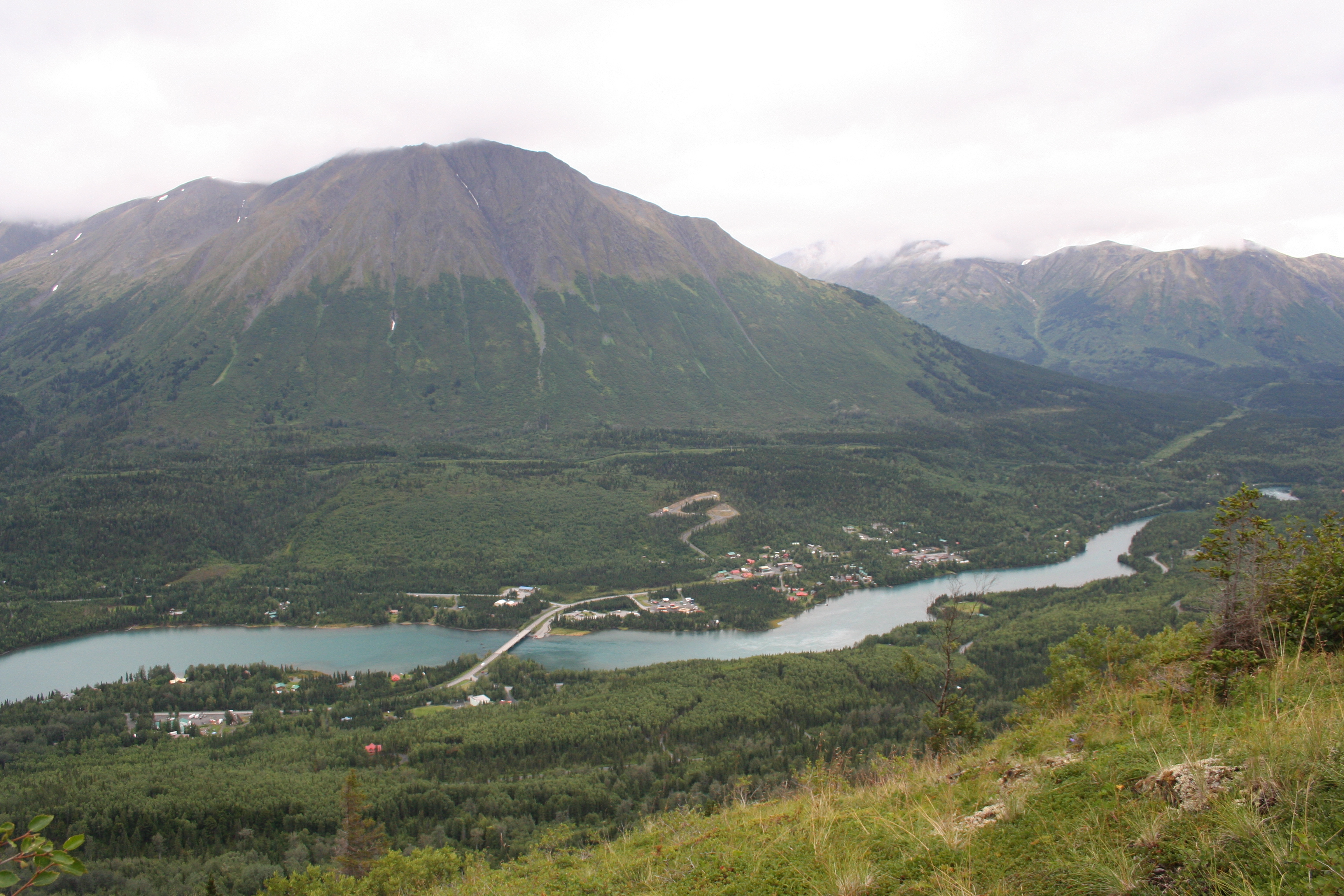 View from Slaughter Ridge trail